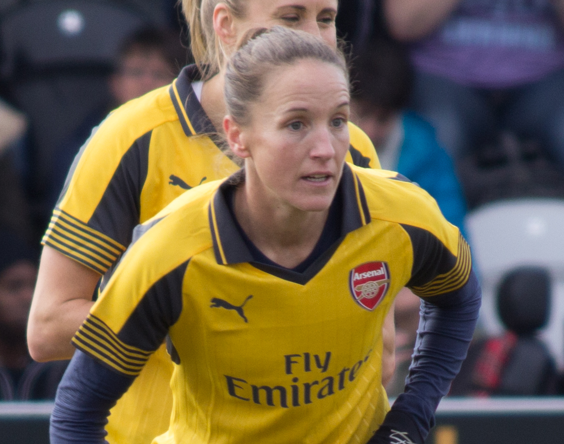 Arsenal LFC (Red) v Kelly Smith All-Stars XI (Yellow), 19 February 2017 – warmups